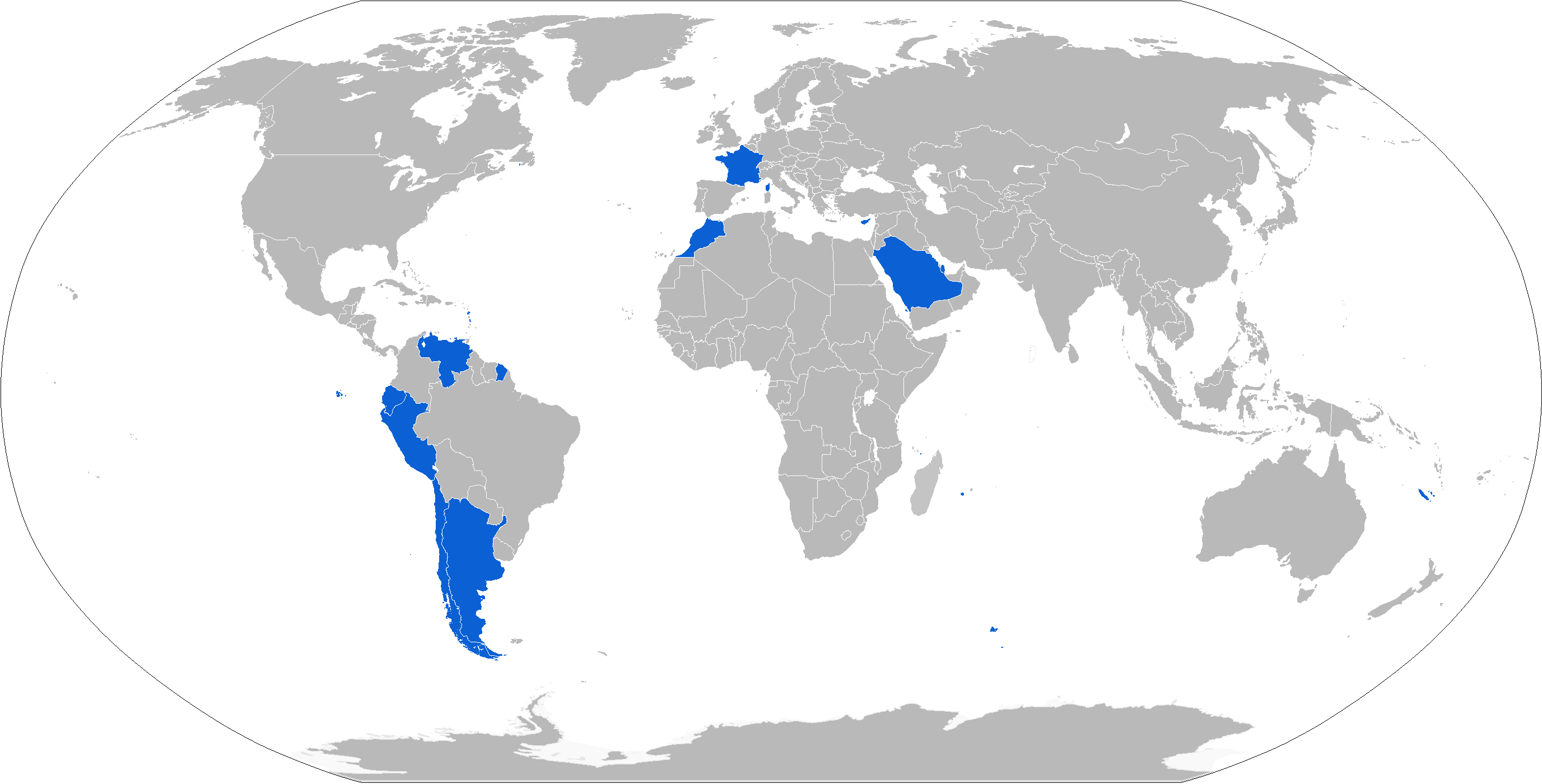 Map of Mk F3 operators in blue